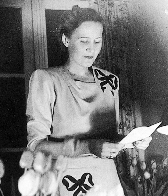 Photo of the Danish resistance member Jutta Graae (1906-1997) - cropped version